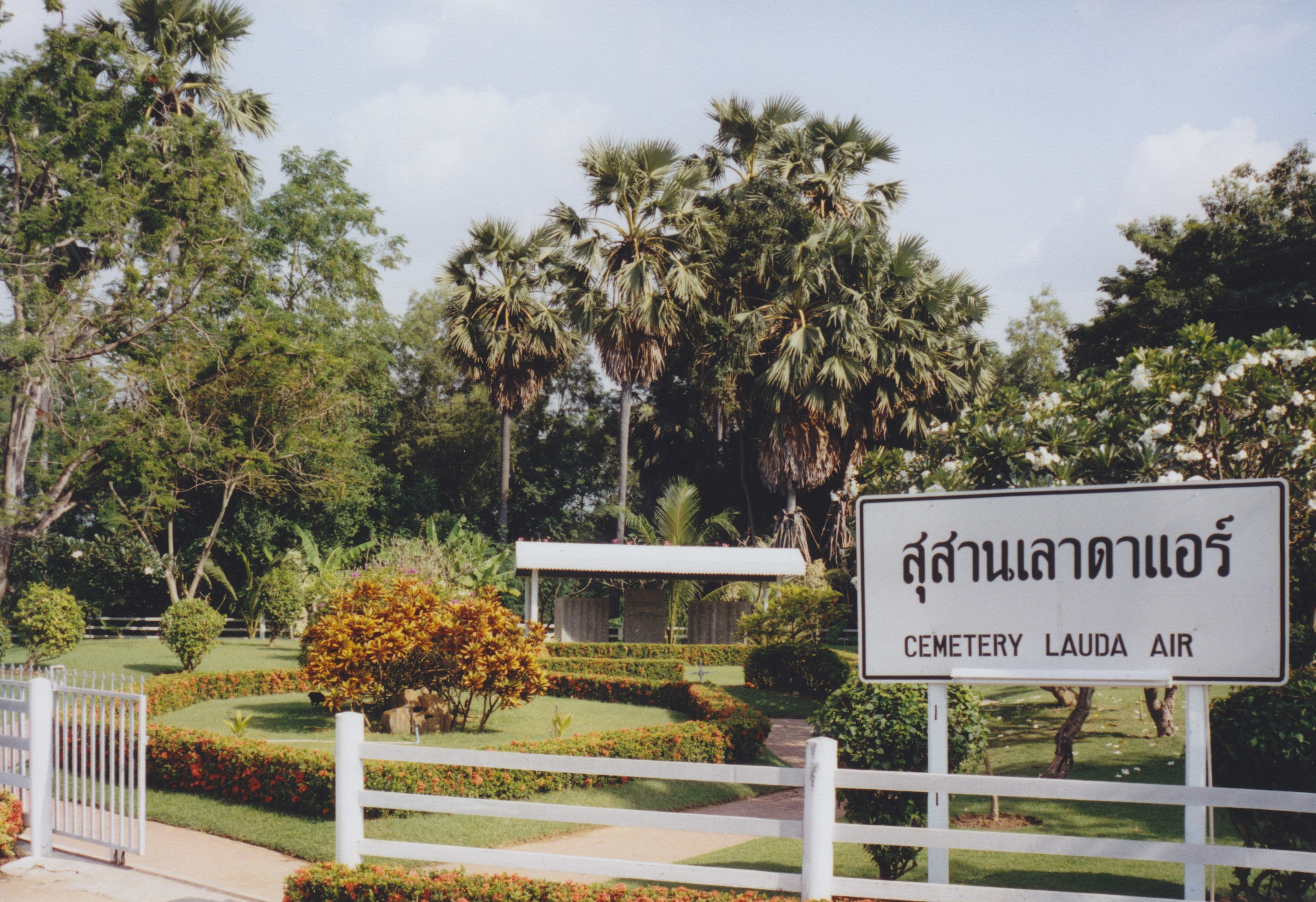 Lauda Air Flight 004 Memorial near Suphanburi